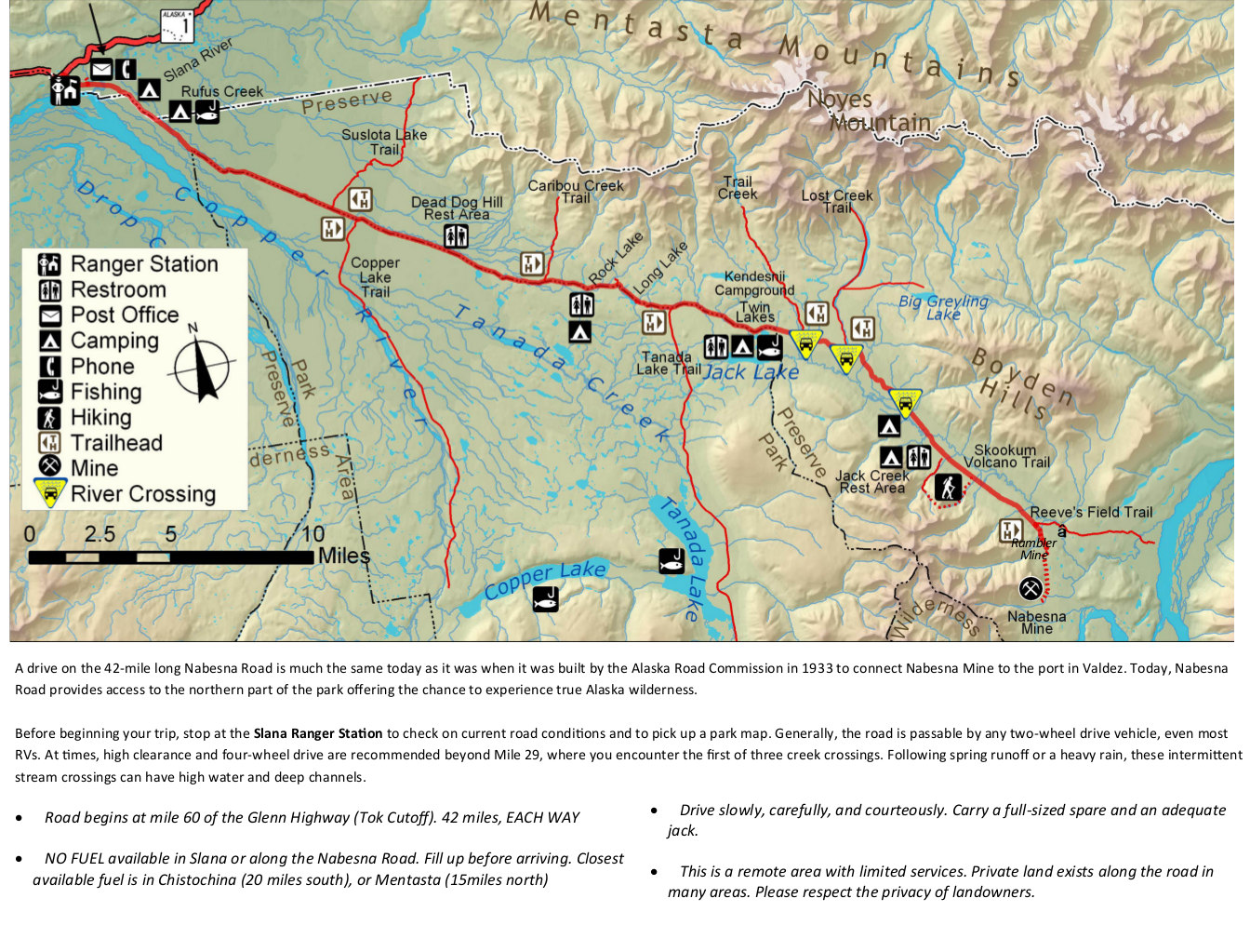 The Nabesna Road map from newspaper shows the other maintained road inside the park, allowing you to access the northern part of the park. Labeled are ranger stations, restrooms, camping, and more.